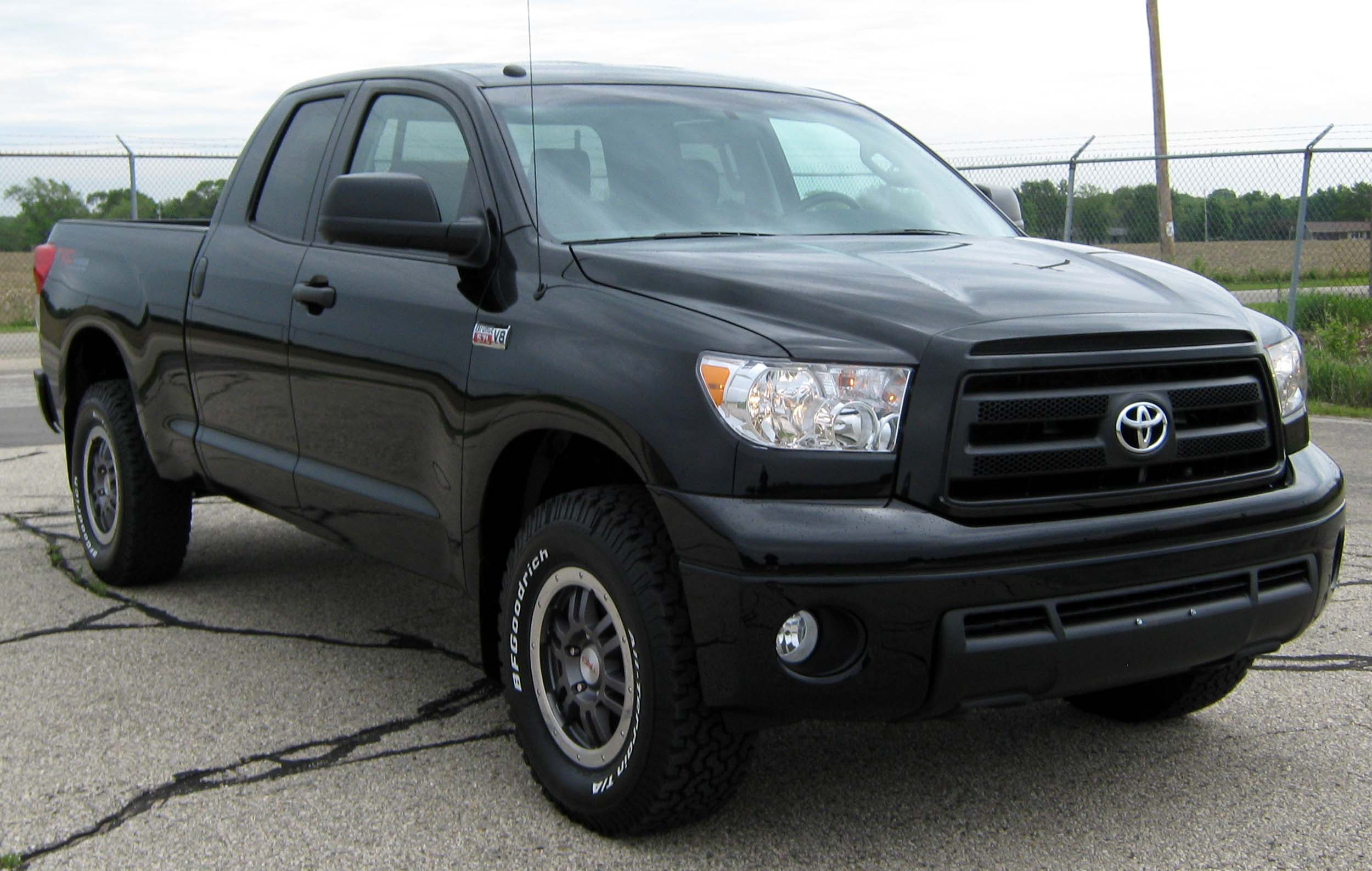 2010 Toyota Tundra photographed in USA.